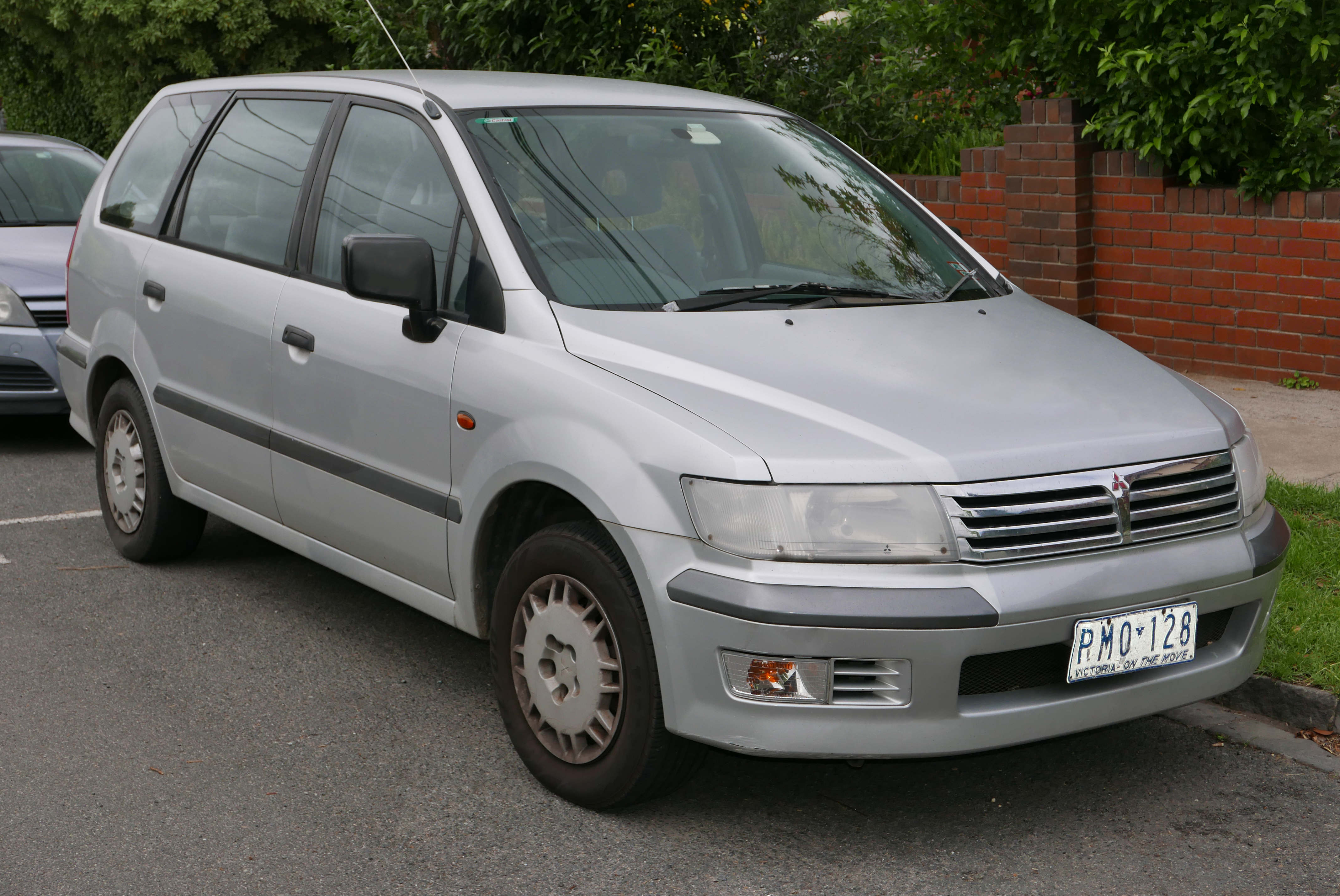 1999 Mitsubishi Nimbus (UG) GLX van. Photographed in Fitzroy North, Victoria, Australia. Vehicle registration enquiry results Jurisdiction Victoria Registration PMO128 Chassis code JMFLRN84WXZ000254 Engine code 4G64YH8366 Compliance date 1999-01 Year of manufacture 1999